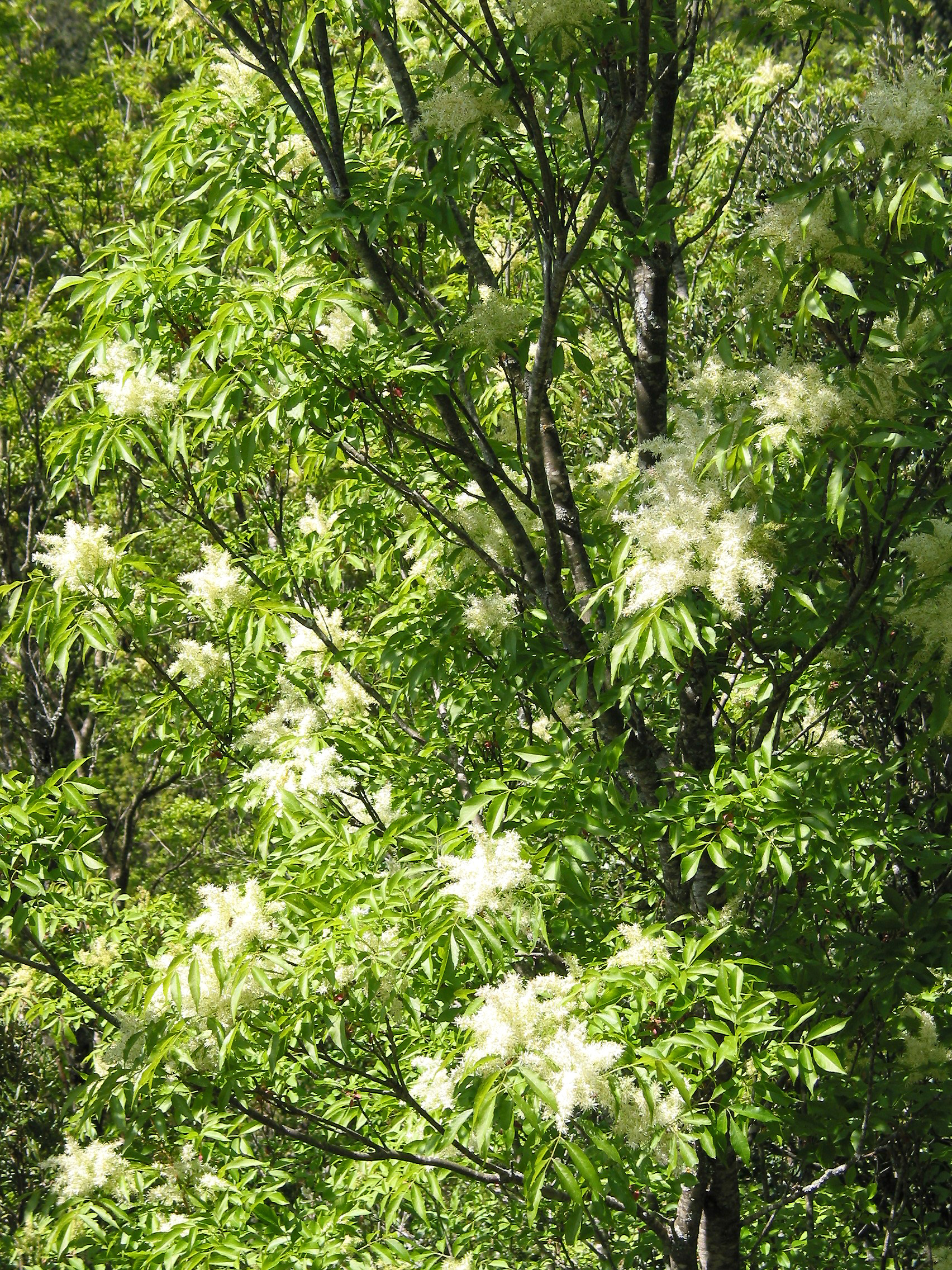 Flowering Ash (Fraxinus ornus) - Habit: Prunelli ravine ( Corse-du-Sud) - France. Corsu: Frassu à fiore (Fraxinus ornus) - Borga da Prunelli ( Corsica sutanna) - Francia. Walon: Frin.ne a fleûrs (Fraxinus ornus) - Place: Gwadjes do Prunelli (Corse-do-Sud) - France.